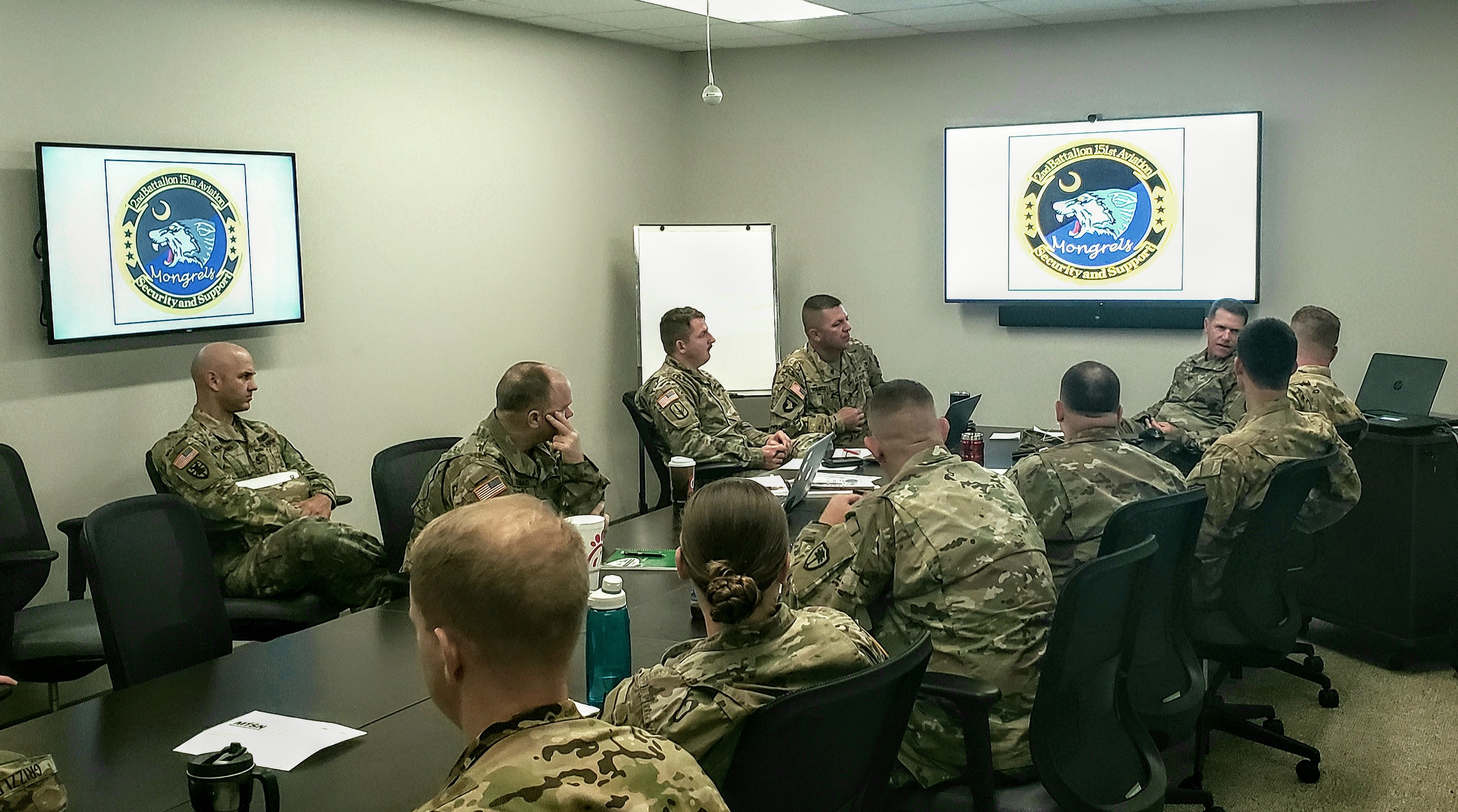 S.C. Army National Guard Soldiers of 2-151st Aviation Regiment (SSAB) and 2-238th Aviation Regiment (GSAB), 59th Aviation Troop Command (59th ATC) prepare to support emergency-response operations as Hurricane Florence approaches the coast of North and South Carolina, Army Aviation Support Facility Loc. 2 (AASF2), Greenville, S.C., Sep. 10, 2018. The aviation component of the S.C. Army National Guard (SCARNG) is prepared to deploy LUH-72A Lakota, UH-60L Black Hawk, and CH-47F Chinook helicopters--both organic to the SCARNG and from other states’ units--should Hurricane Florence’s landfall have destructive effects on local population and proprieties, in the Carolinas and bordering states. The helicopters can be also utilized to support local authorities during the evacuation phases preceding landfall. (U.S. Army National Guard Photo by Staff Sgt. Roberto Di Giovine)